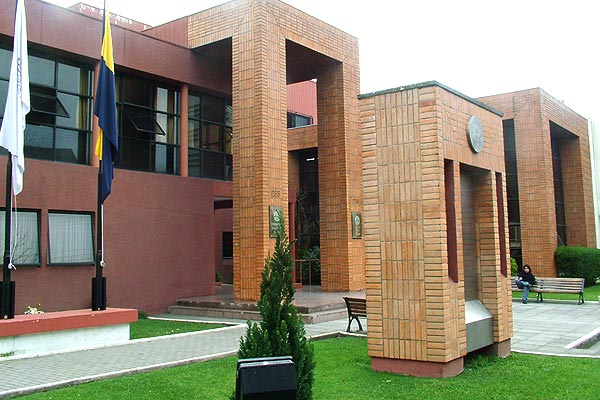 Facultad_Derecho_UCSC_2.jpg